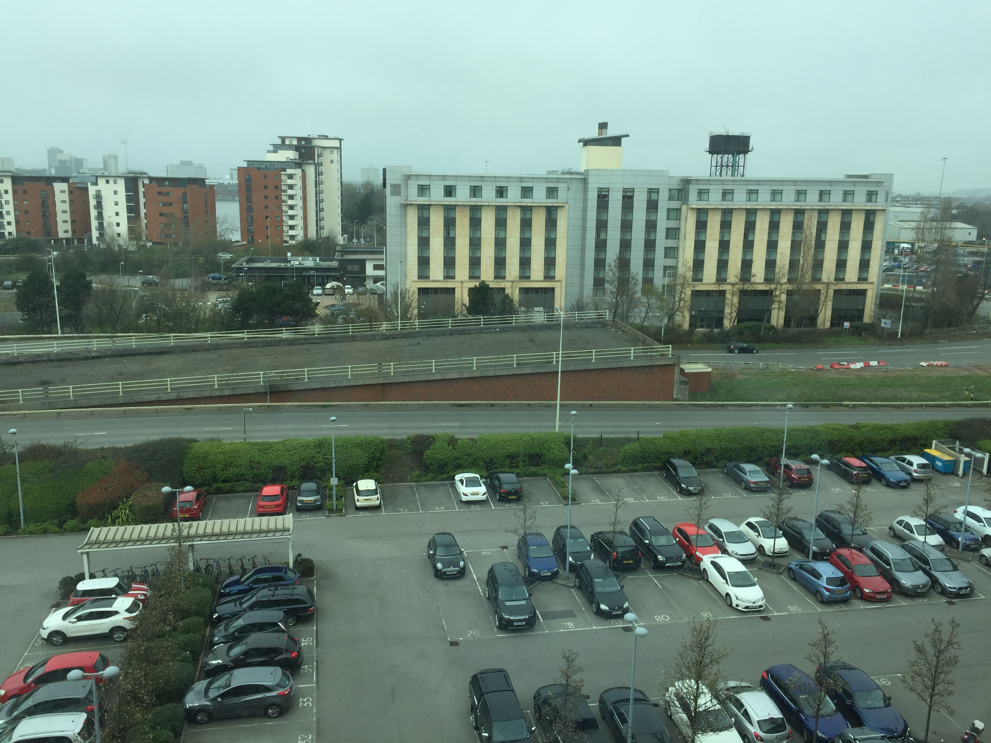 The unfinished flyover at the Queen's Gate roustabout